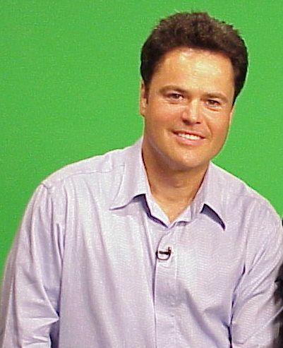 Photo taken and submitted by Phil Konstantin. I give my permission for anyone to use this photo. Please acknowledge "Phil Konstantin" as the creator of this photograph.